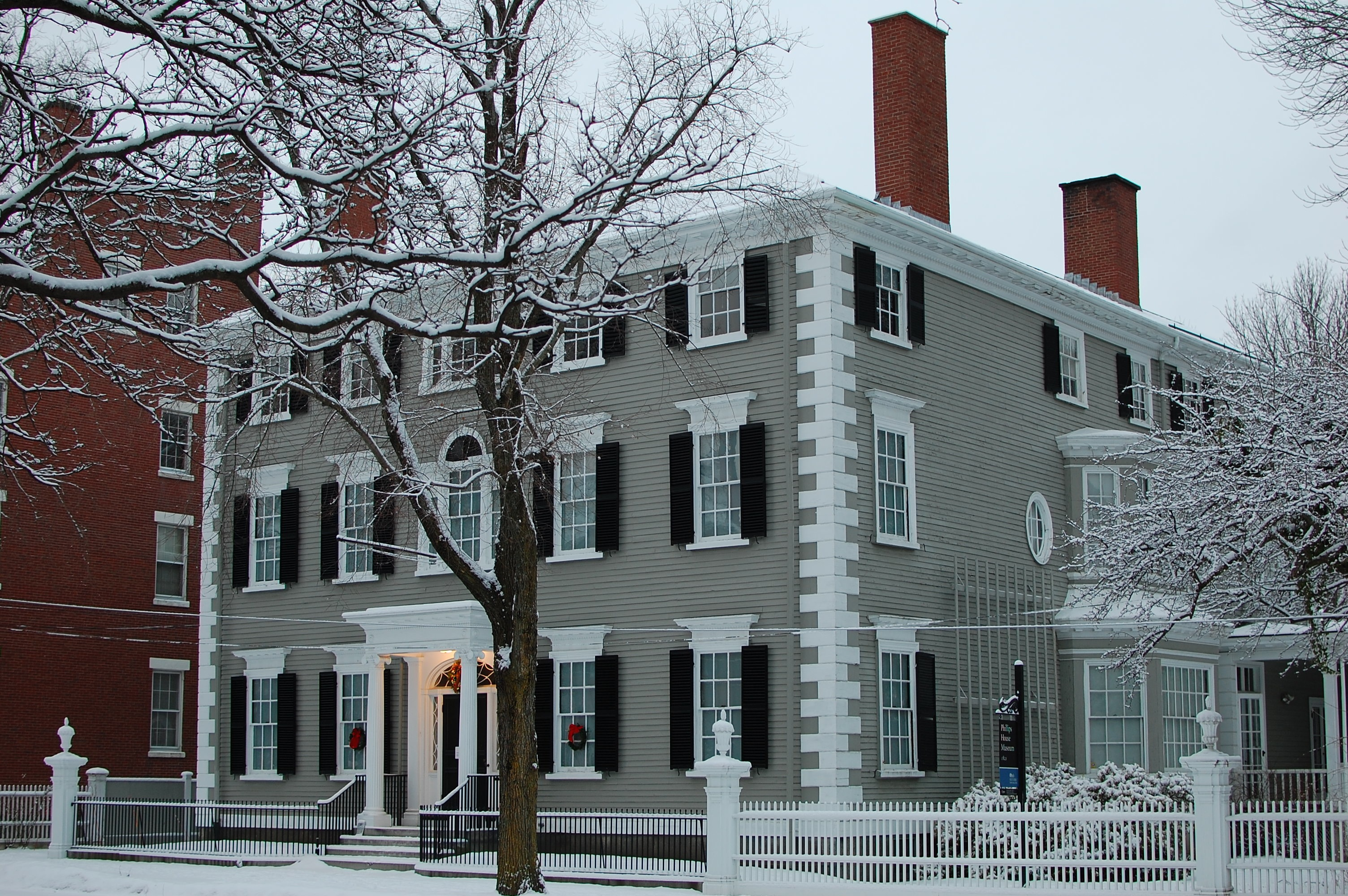 Stephen Phillips House museum in Salem, Massachusetts. Originally built in Danvers it was moved to Salem and enlarged by Nathanial West in 1821. (website)